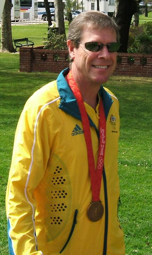 Warren Potent at the 2008 Olympic homecoming parade in Adelaide